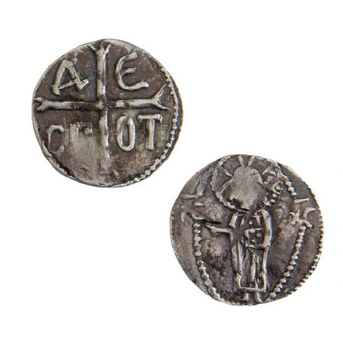 On the obverse of the denarius of Despot Stefan, between the arms of the cross, is the inscription: Δ/Е/CΠ/OT (DESPOT). On the obverse is a representation of standing Jesus Christ wearing a mandorla. He holds the Gospel in his left hand and confers blessing with his right hand.